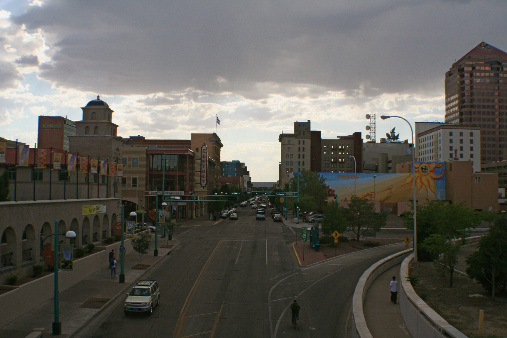 Route 66 through Downtown Albuquerque, New Mexico